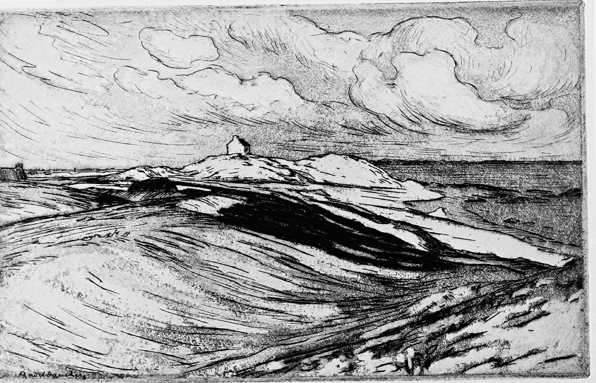 Title: Modern etchings, mezzotints and dry-points Year: 1913 (1910s) Authors: Holme, Charles, 1848-1923 Salaman, Malcolm C. (Malcolm Charles), 1855-1940 Taylor, E. A Zilcken, Ph., 1857-1930 Levetus, A. S Deubner, Ludwig, 1877-1946 Laurin, Thorsten Subjects: Etching Mezzotint engraving Dry-point Publisher: London, New York (etc.) "The Studio" ltd. Text Appearing Before Image: 169 Text Appearing After Image: iiazi2cs?yt;3s»*«j*sK*«a^;---- 170